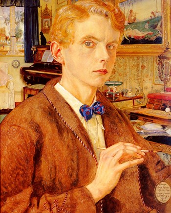 Portrait of the artist